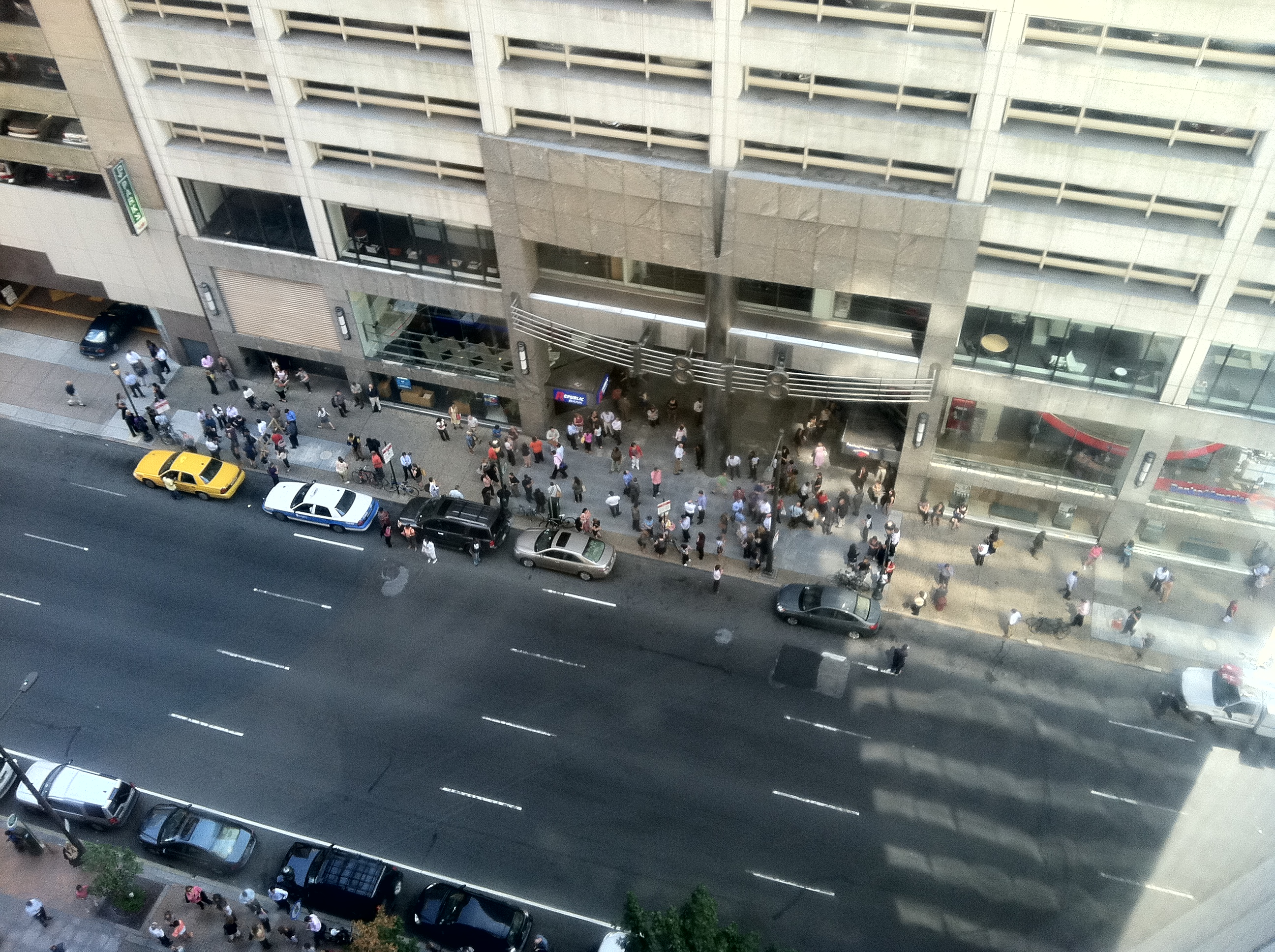 People evacuate the 1818 Market Street building in Philadelphia, Pennsylvania, during the 2011 Virginia earthquake.